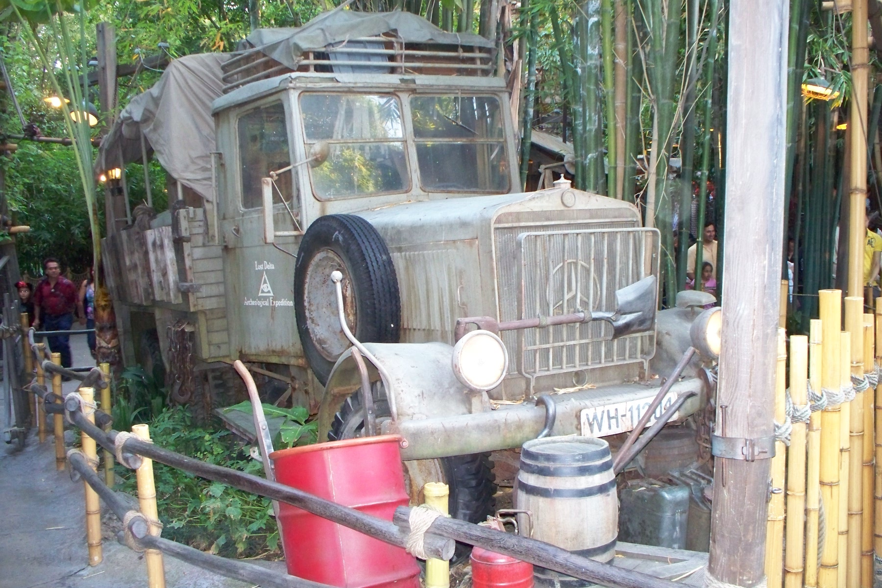 Actual late 1930s Mercedes-Benz 2.5 ton diesel truck used in the filming of Raiders of the Lost Ark and now on permanent display at the exit queue of the "Indiana Jones and the Temple of the Forbidden Eye" attraction at Disneyland, Anaheim, California USA.